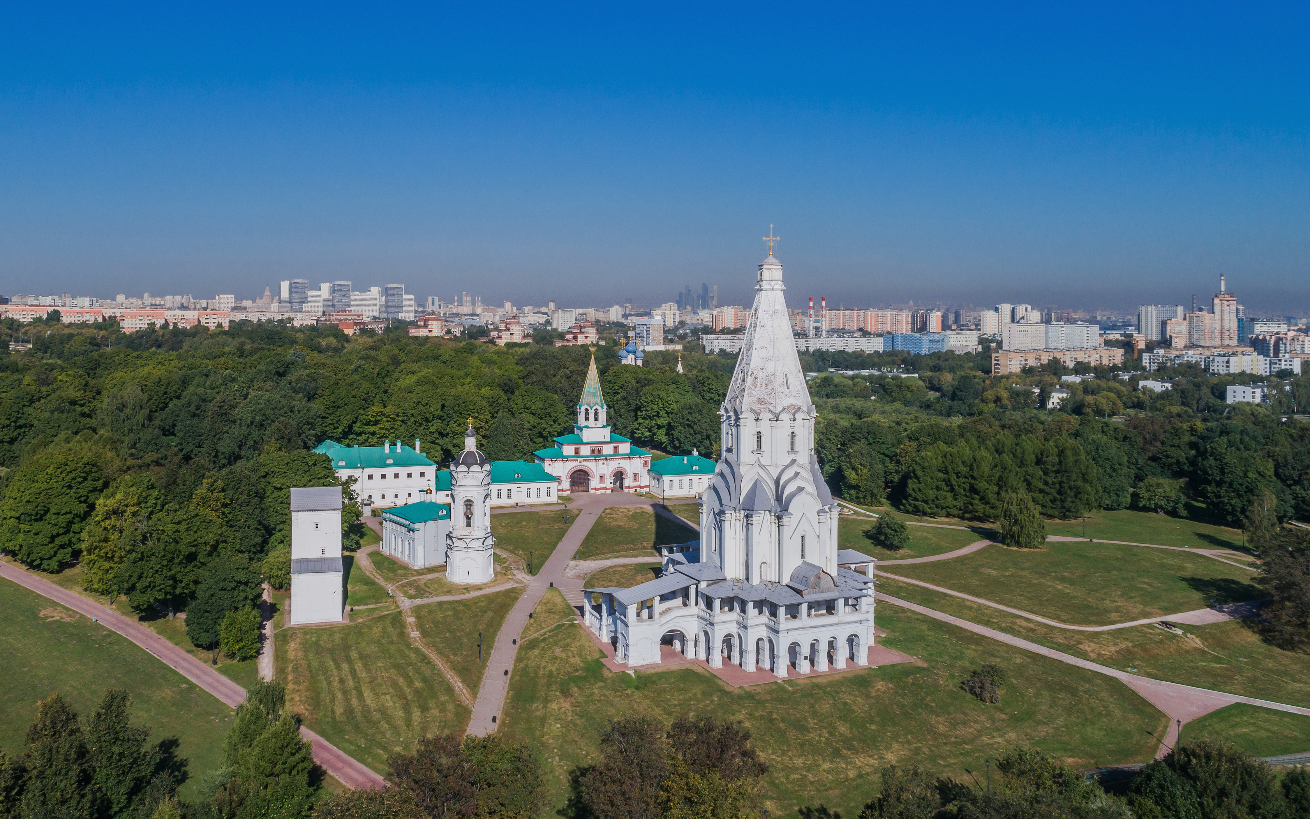 Aerial photo of Kolomenskoe park and estate in Moscow, Russia.